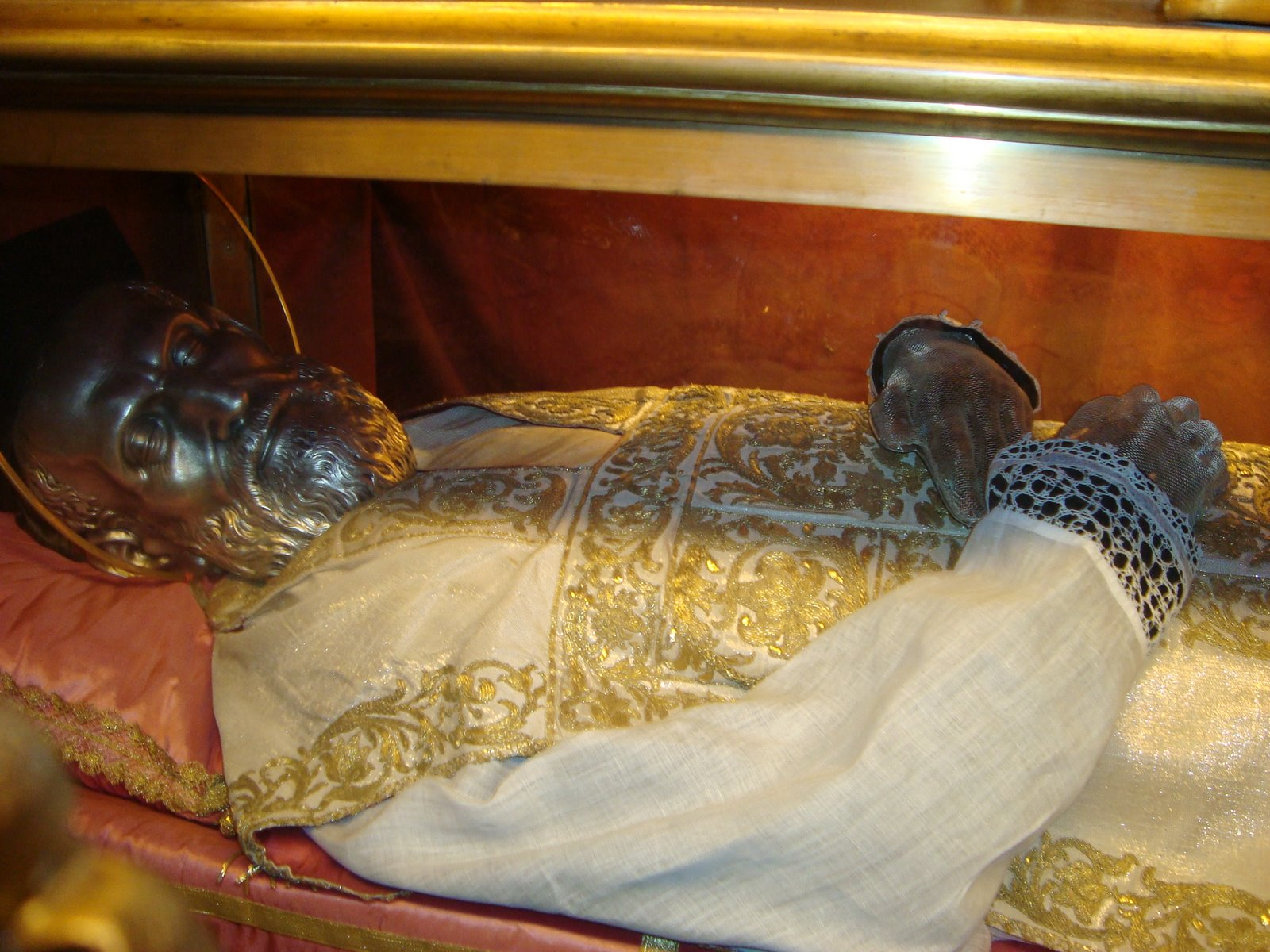 St. Philip Neri's image, on the saint's corpse, at his tomb in Santa Maria in Valicella (Rome)